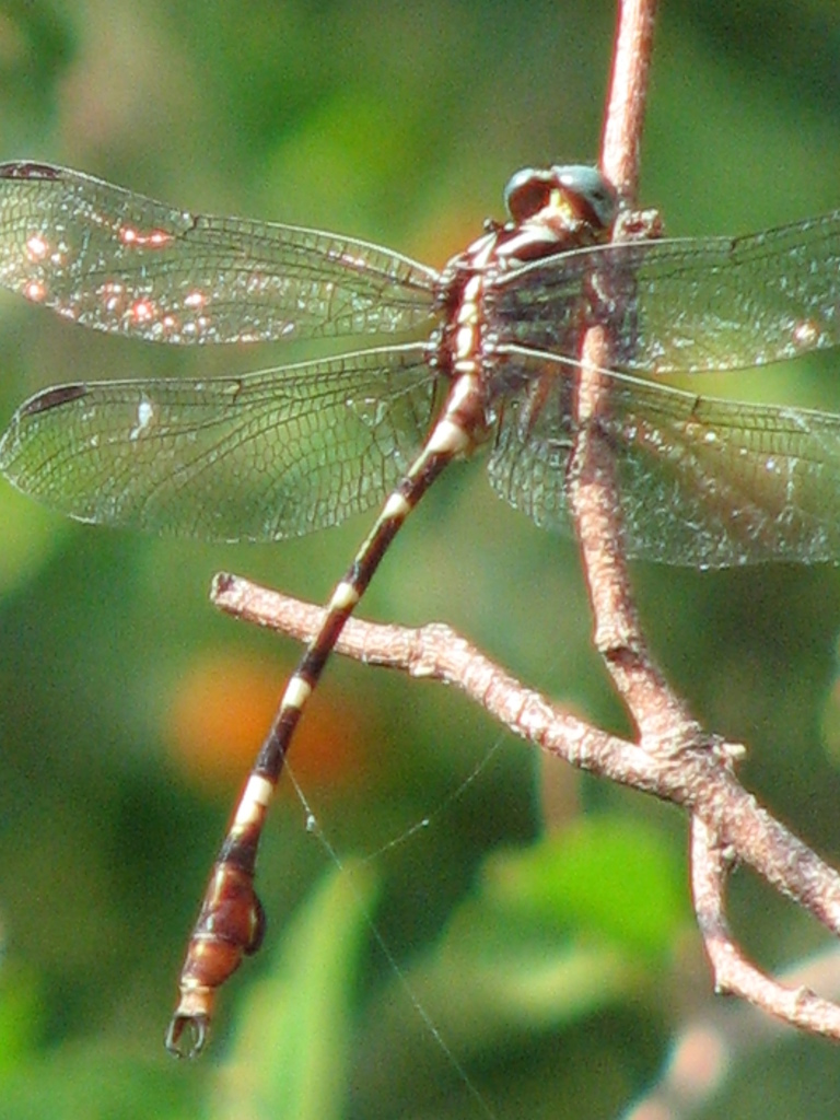 Ringed Forceptail (Phyllocycla breviphylla), 2800 S Bentsen Palm Dr, Mission, TX 78572, USA